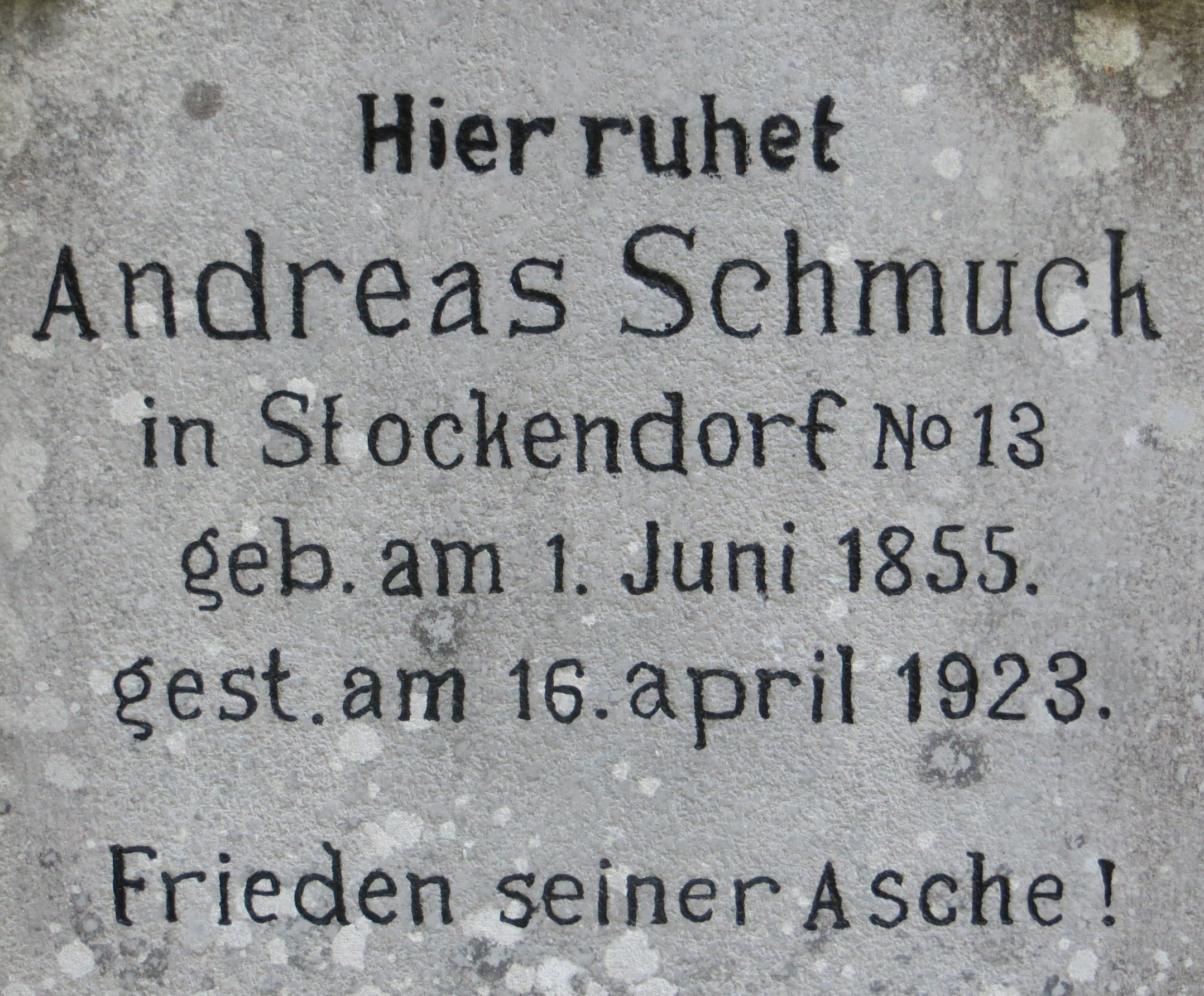 Gravestone at Prophet Elijah Church in Planina, Municipality of Semič, Slovenia with the German place name Stockendorf (Slovenian: Planina)